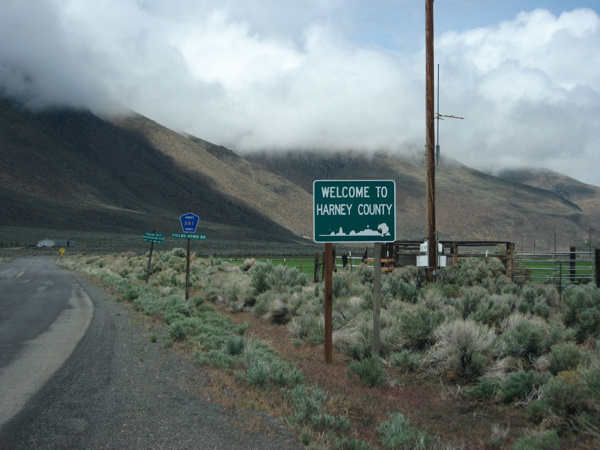 A sign for Harney County, Oregon, a large county in the southeast region of the state